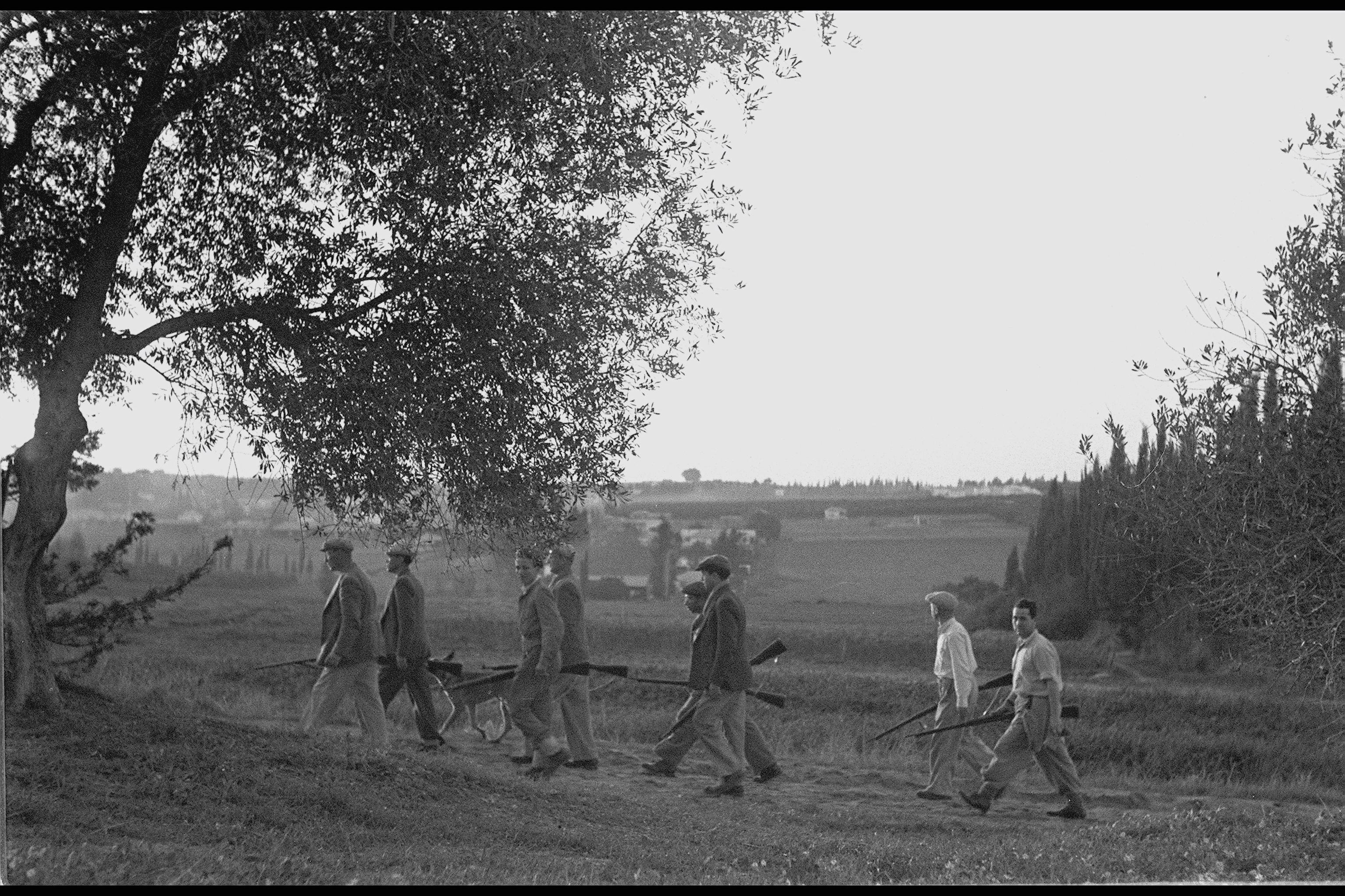 The Hagana in Kfar Saba, Israel Defense Forces